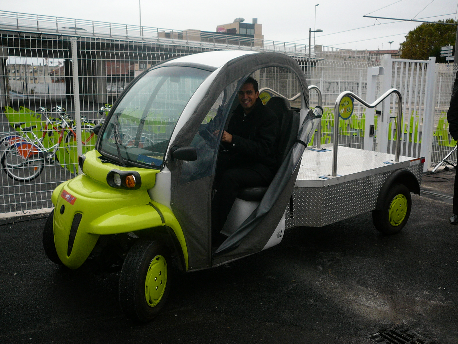 The Vélomagg' redispatching fleet transports the bicycles from overcrowded stations to depleted stations using electrical vans.